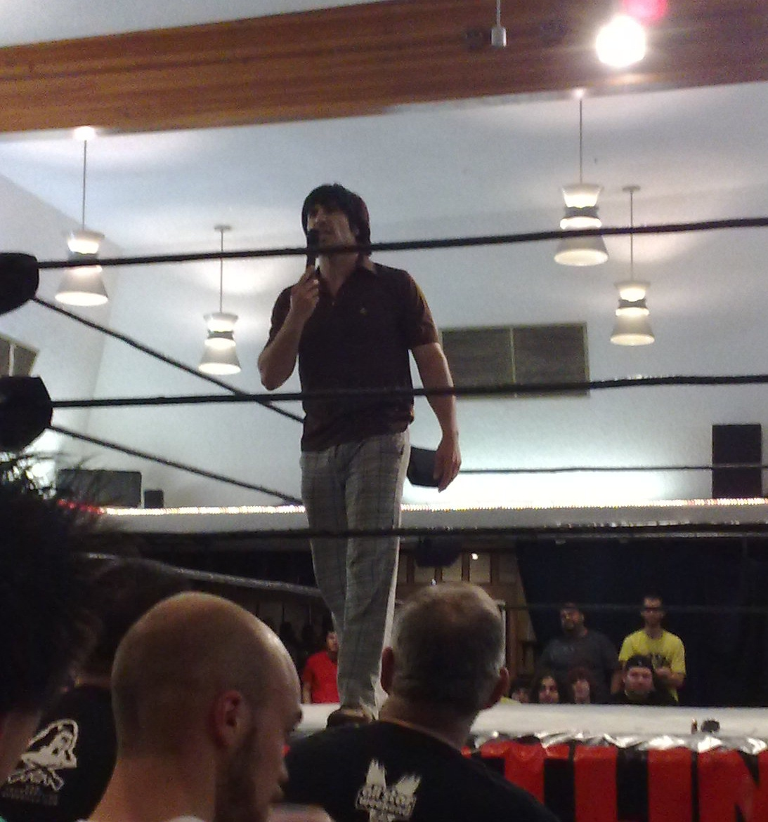 Professional wrestler Paul London cutting a promo at Pro Wrestling Guerrilla's 99 show in April 2009.